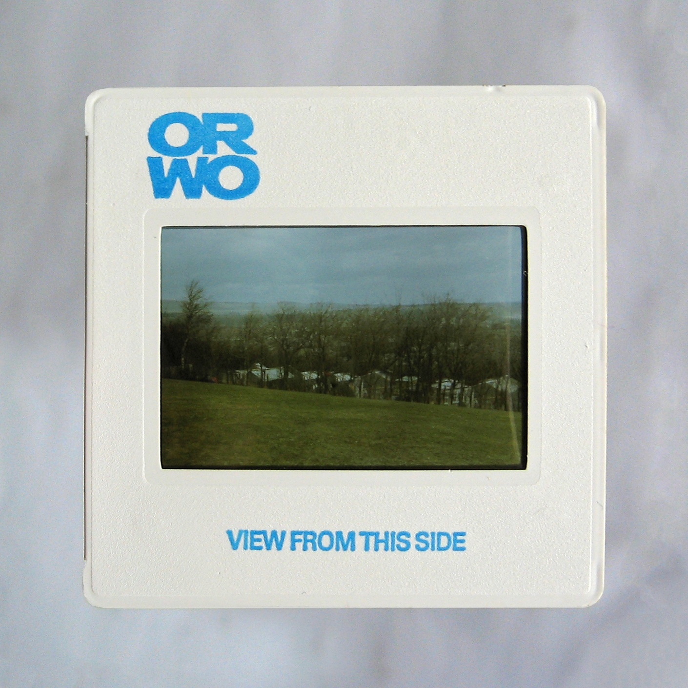 Image of a slide taken during the mid-to-late 1980s on Orwochrom UT21 film (I think!).